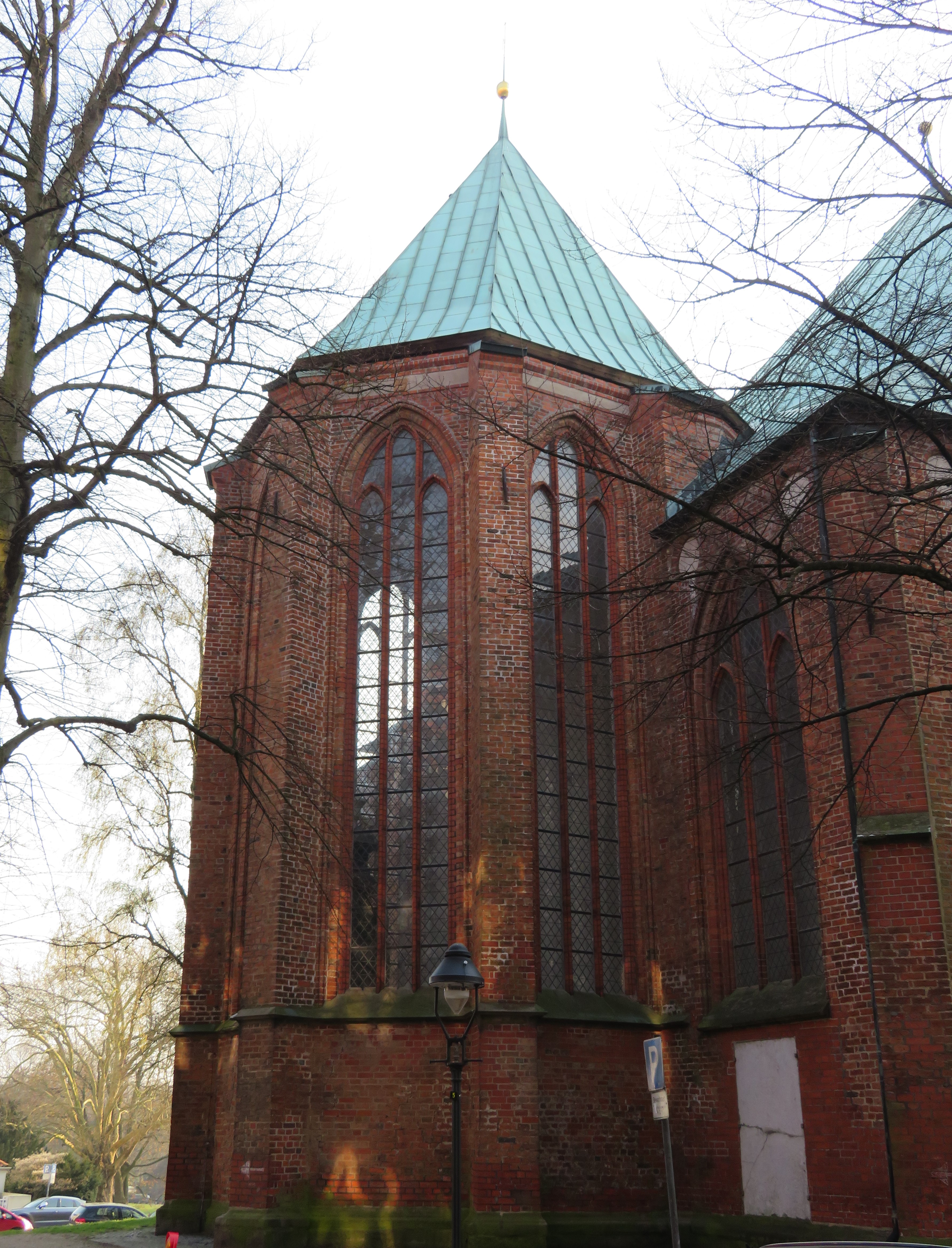 Marientidenkapelle, Lübeck Cathedral